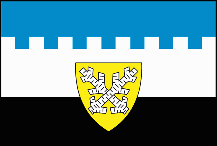 Municipal flag of Šluknov, Děčín District, Czech Republic